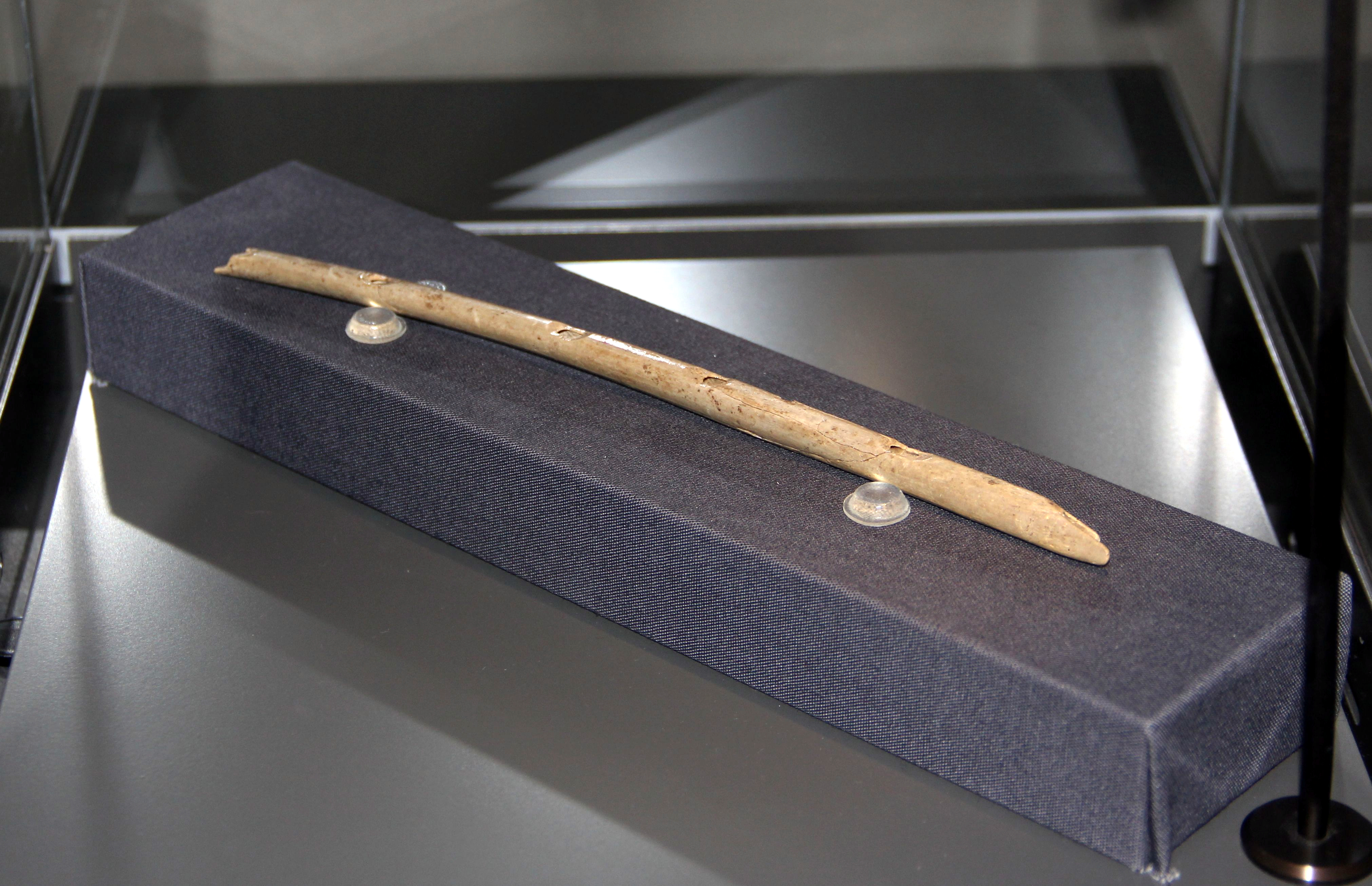 Flute of vulture bone Hohle Fels in the Museum of Prehistory Blaubeuren - urmu